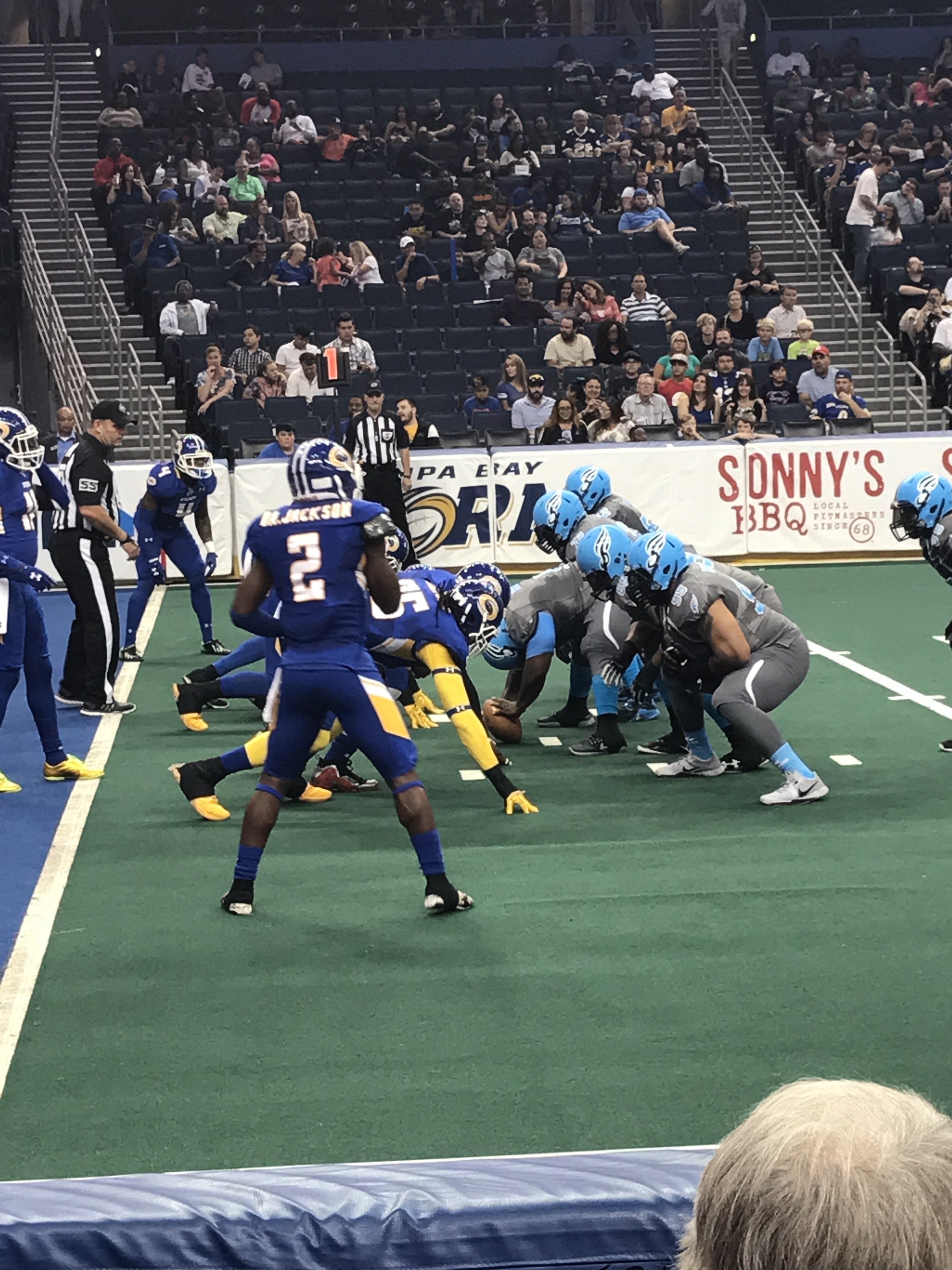 Tampa Bay Storm Defense lined up against the Philadelphia Soul Offense